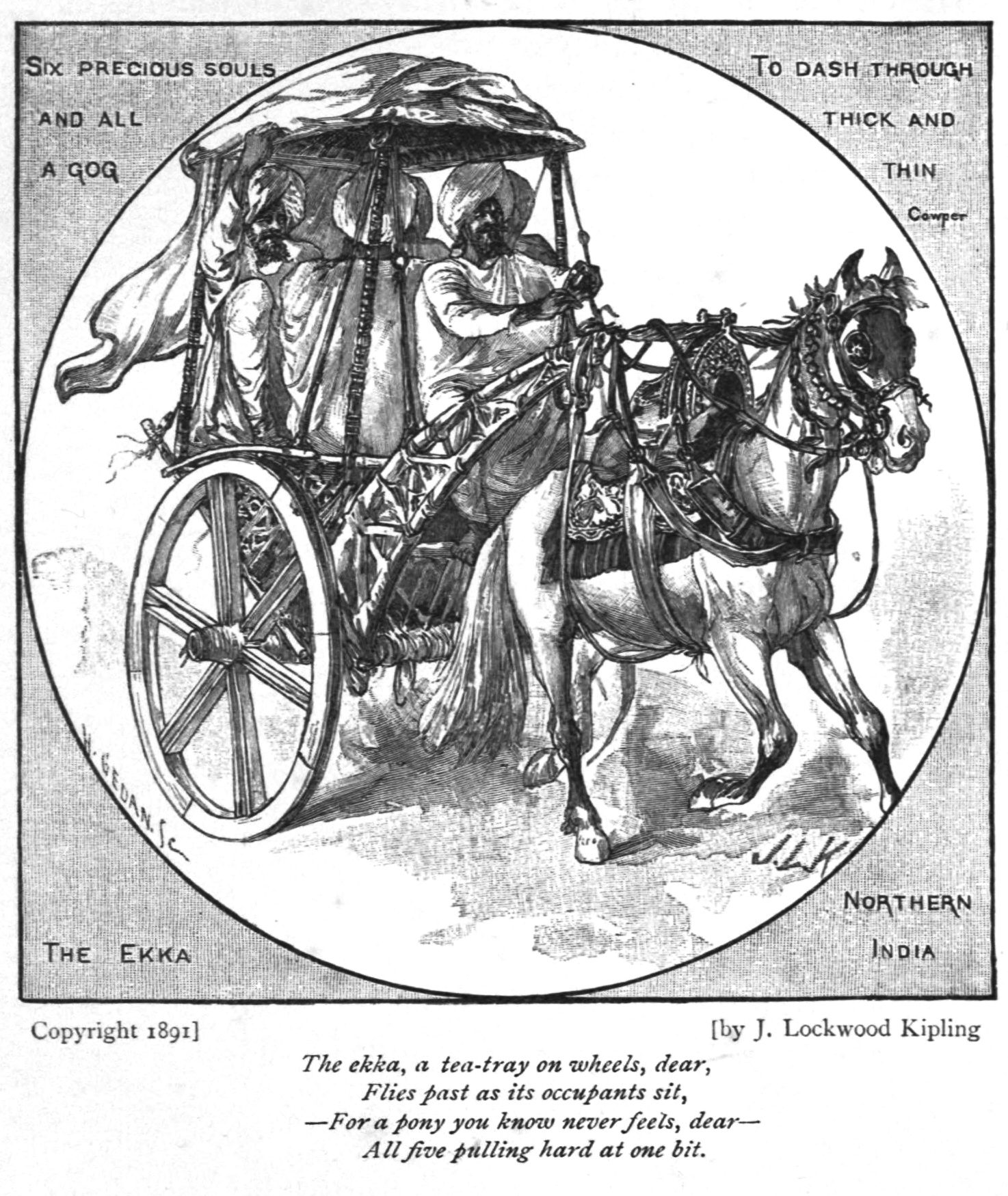 Lockwood Kipling's drawing and description of an ekka